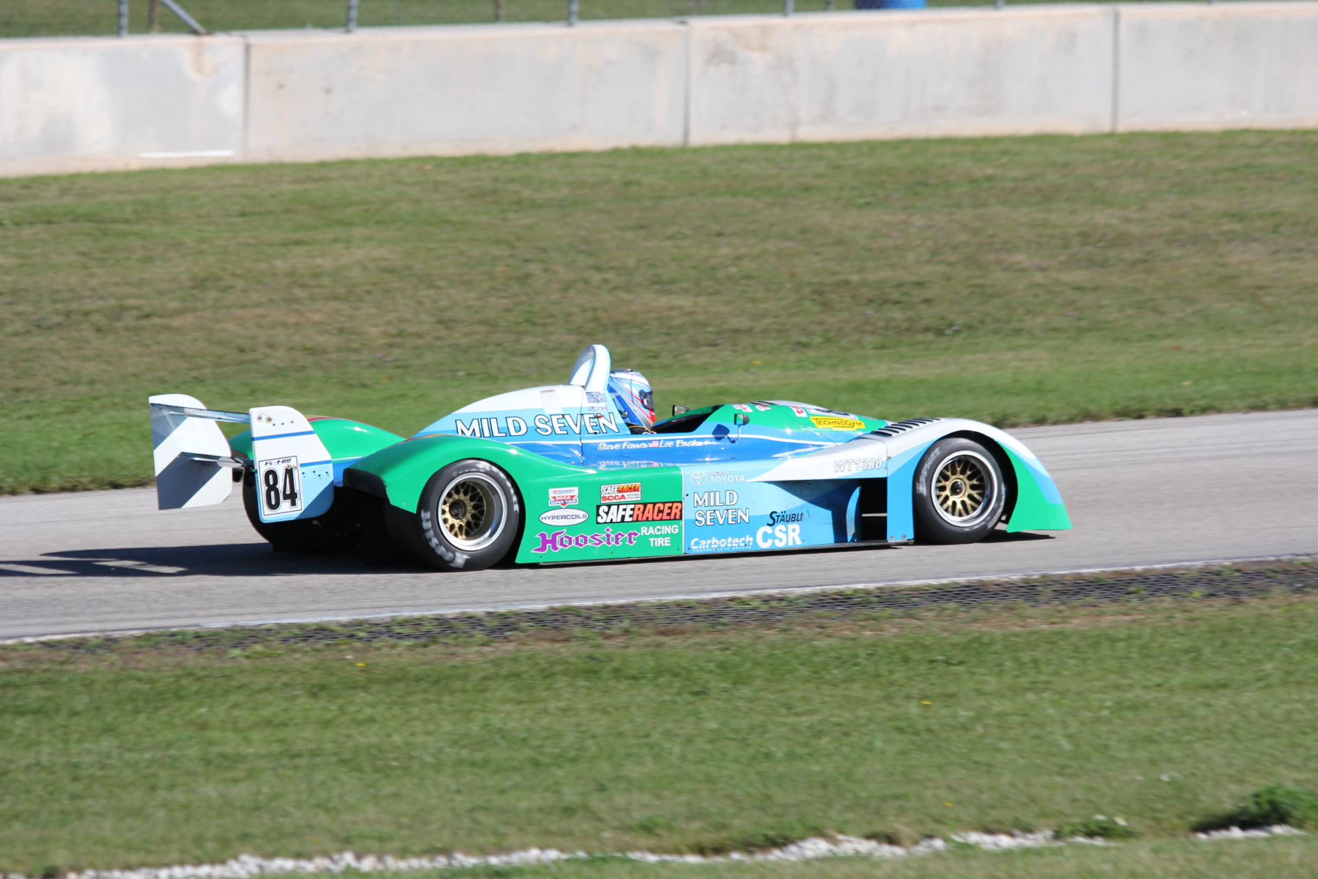 Steve Forrer racing his C Sports Racer car during his win at the 2013 SCCA National Championship Runoffs at Road America.